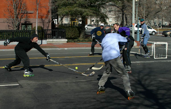 Road hockey game in Washington, DC, January 2003. Uploaded by photographer.